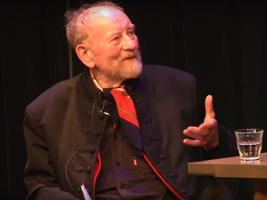 Kurt Westergaard during the "Kurt Westergaard Press Freedom Lecture", De Balie Amsterdam, 2 May 2015